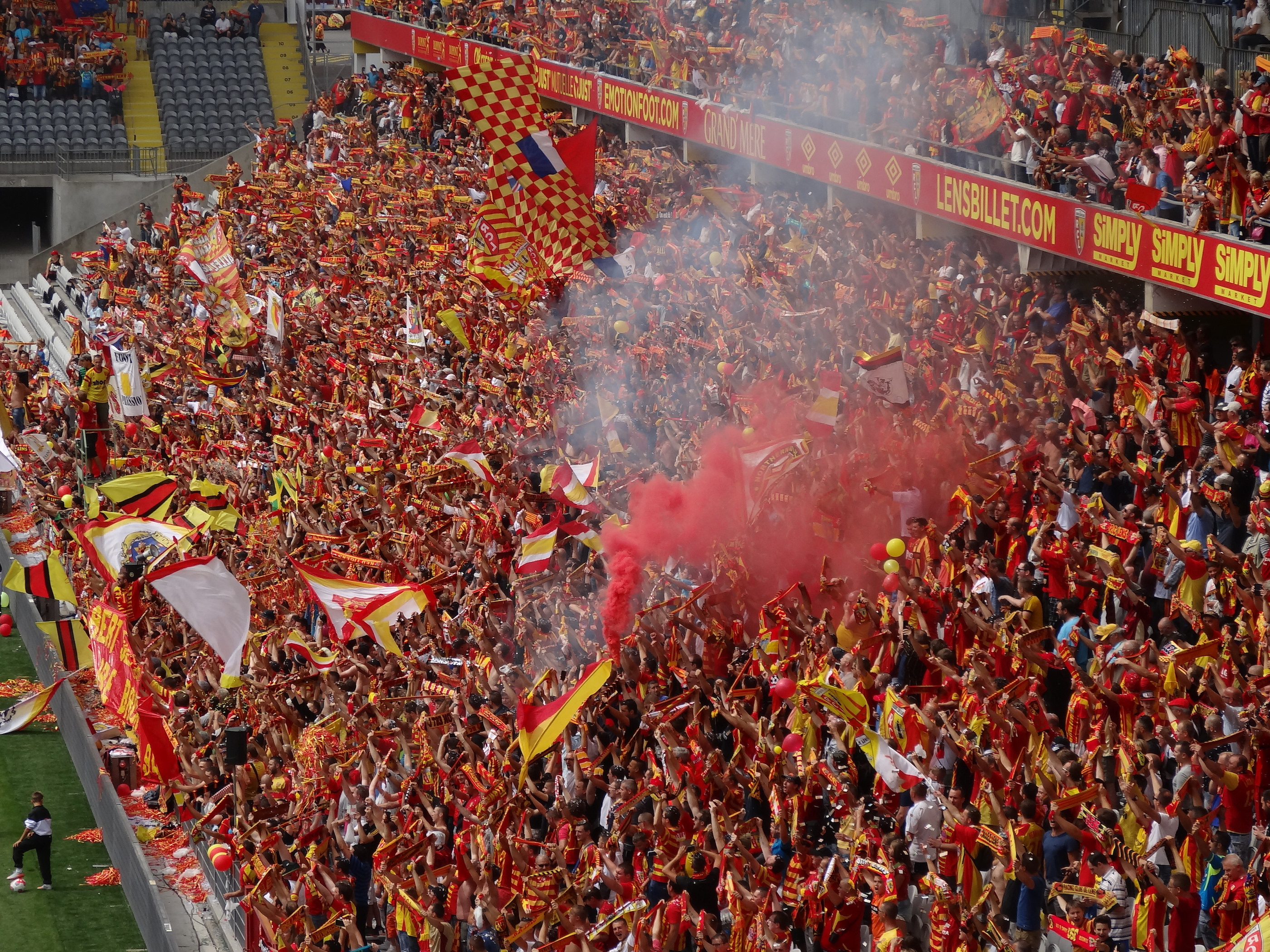 RC Lens Kop